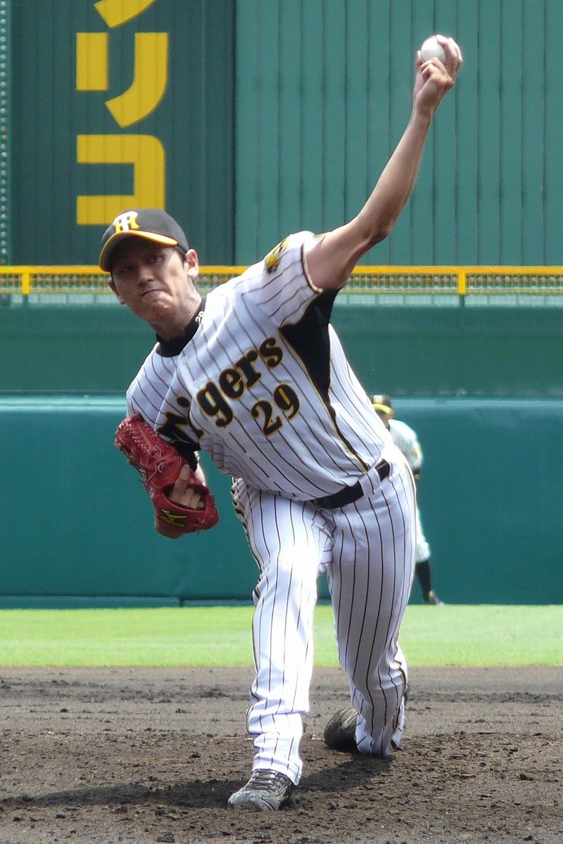 Tatsuya Kojima, pitcher of the Hanshin Tigers, at Hanshin Koshien Stadium.